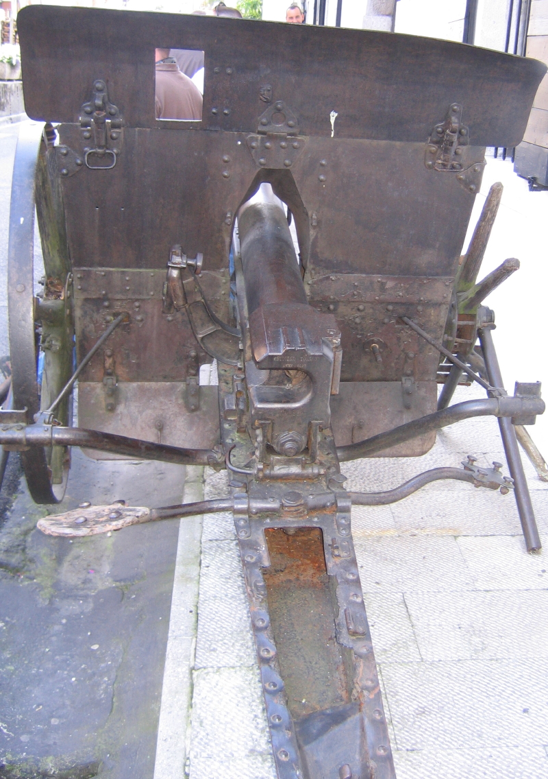 Rear view of a Cannone da 75/27 at the museum at Kobarid (Caporetto)